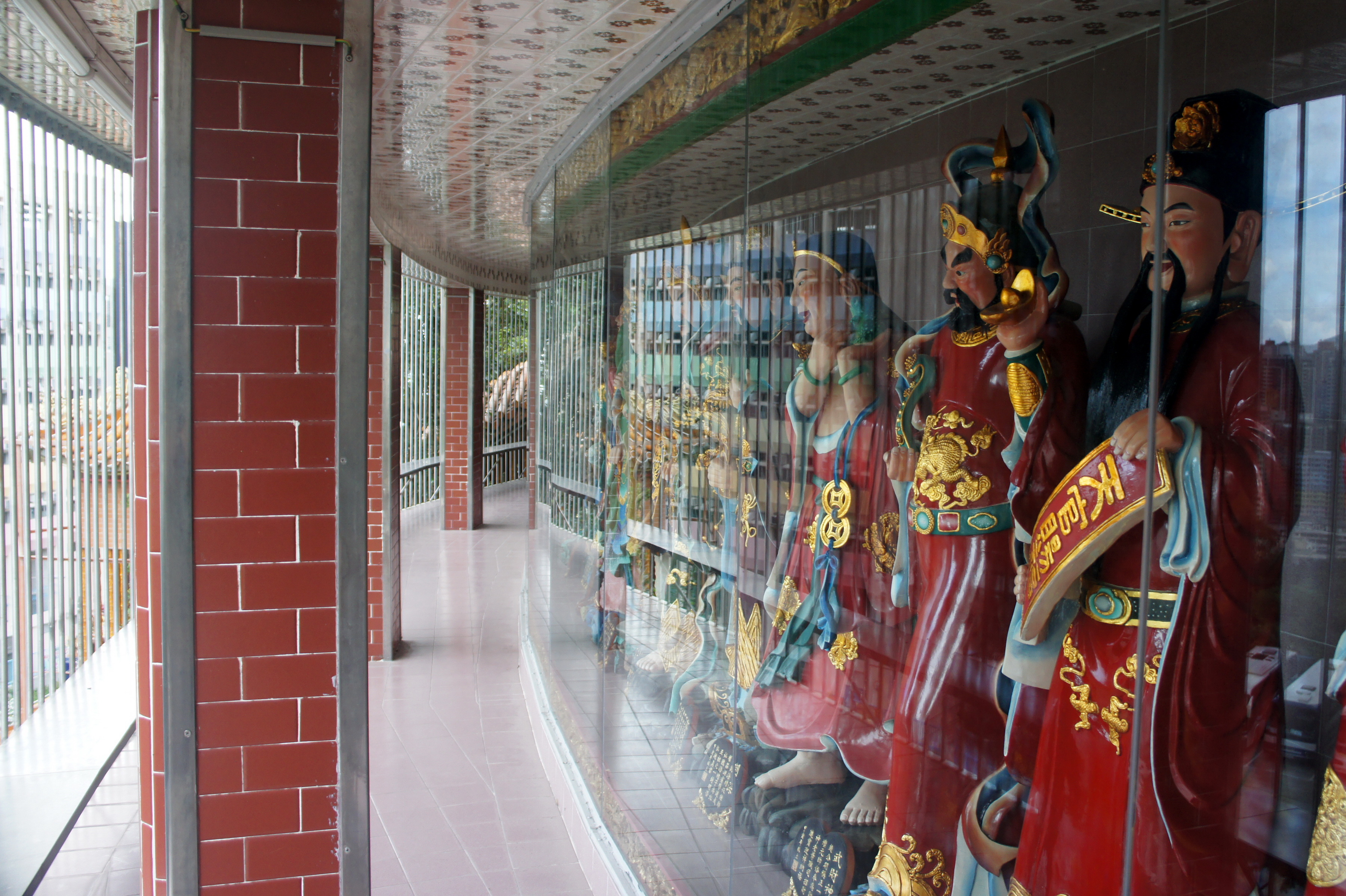 Celestial being sculpture gallery, Tsz Wan Kok Temple, Tsz Wan Shan, Kowloon, Hong Kong.